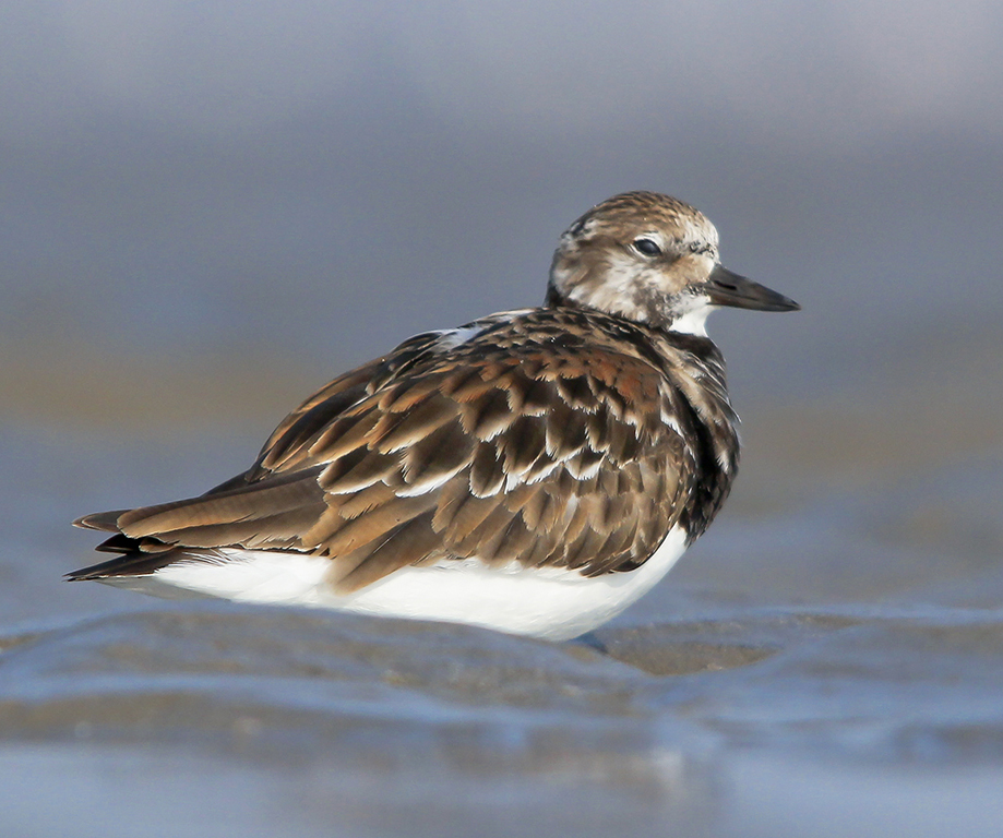 kutch